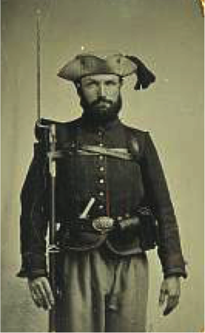 This is a photo of an unknown American Civil War soldier from the 34th Ohio Volunteer Infantry, which was also known as Piatt's Zouaves.